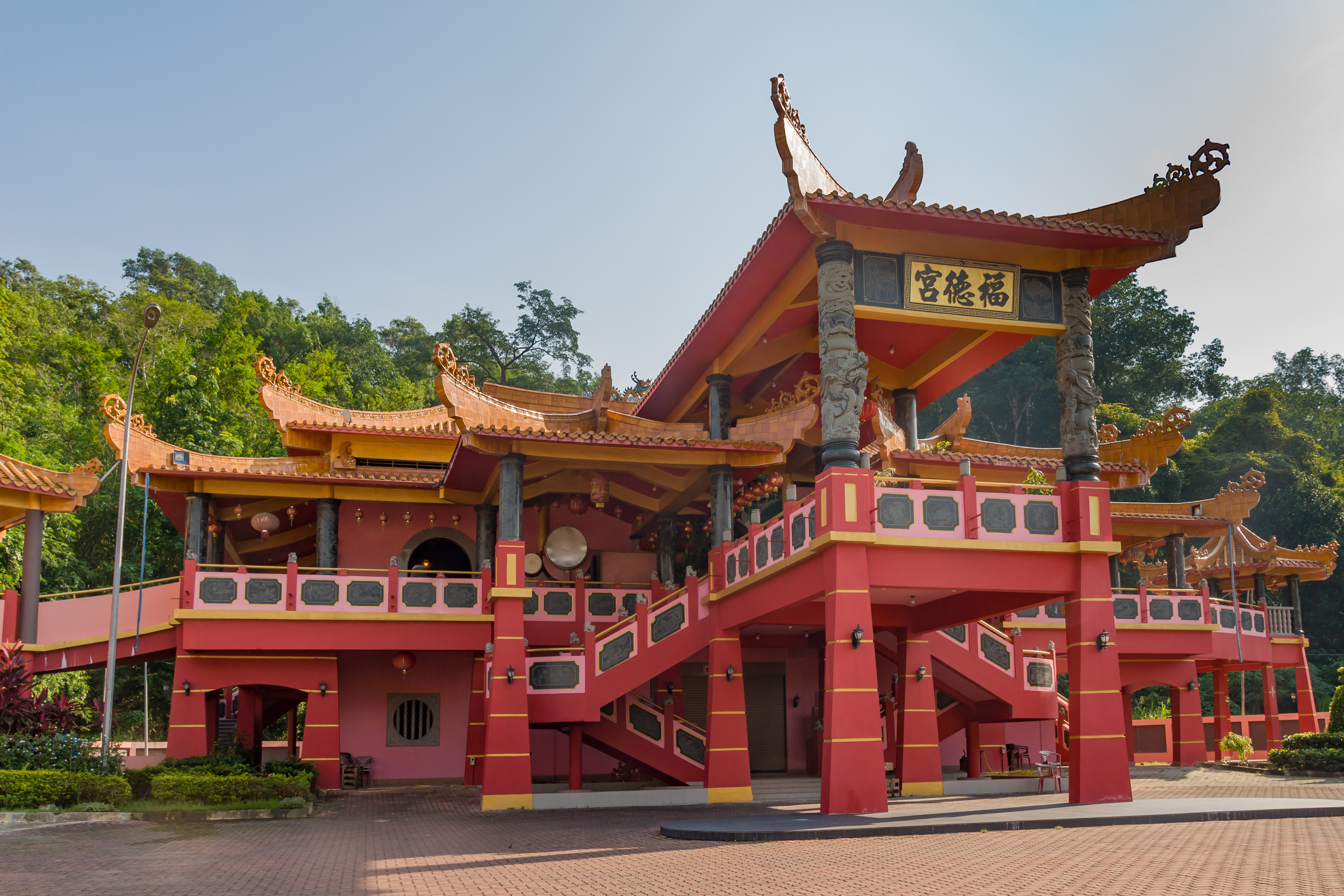 Penampang, Sabah: Jing Fu Chinese Temple in Donggongon)